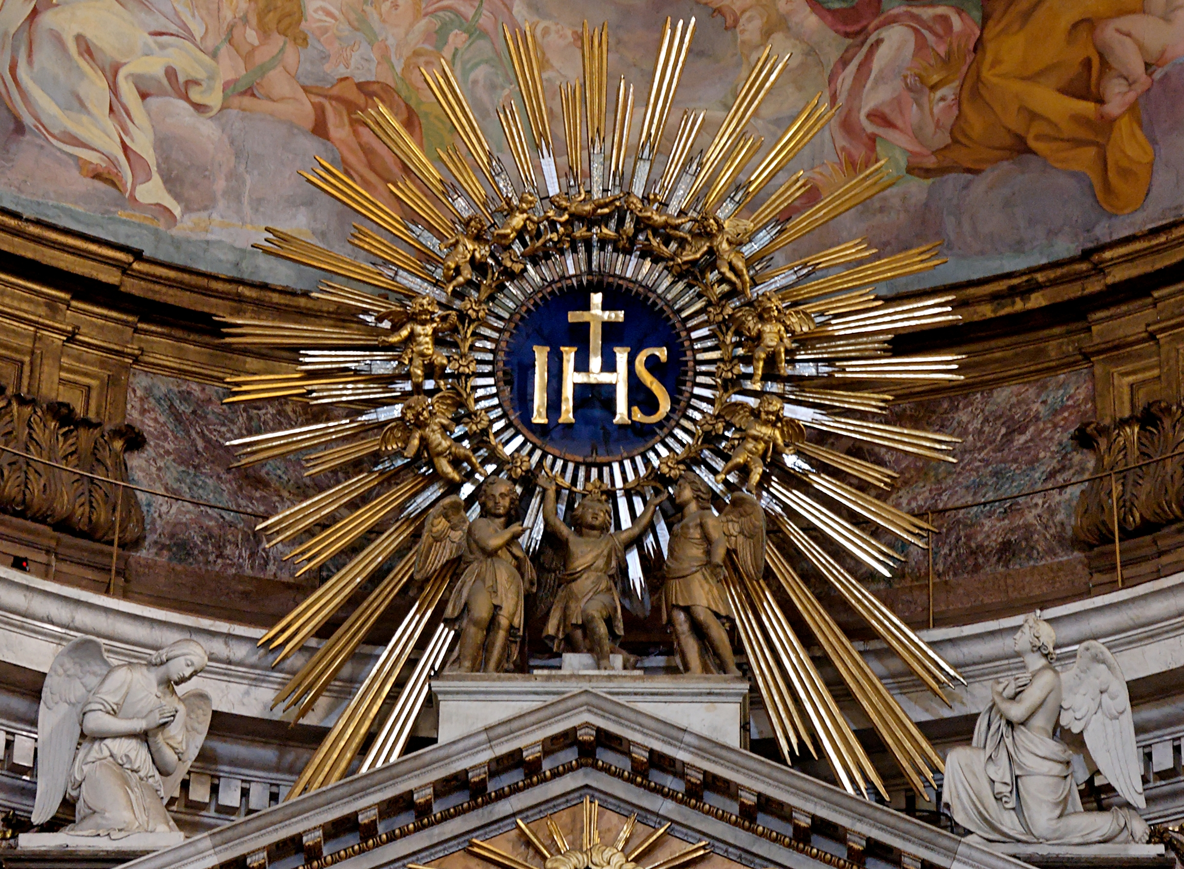 IHS monogram, on top of the main altar of the Gesù, Rome, Italy.